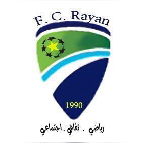 Rayan Club Social Activity